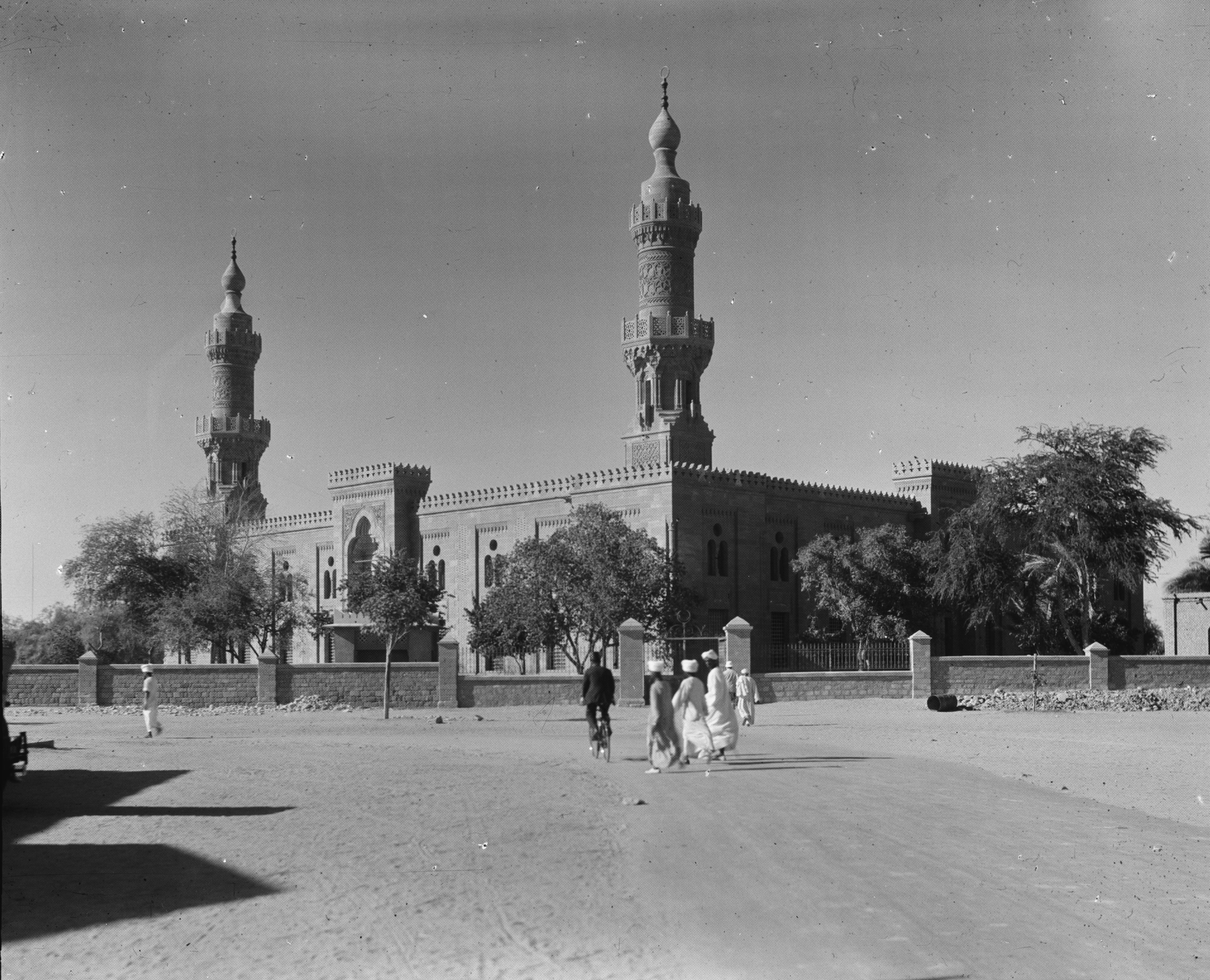 Sudan. Khartoum. Main mosque